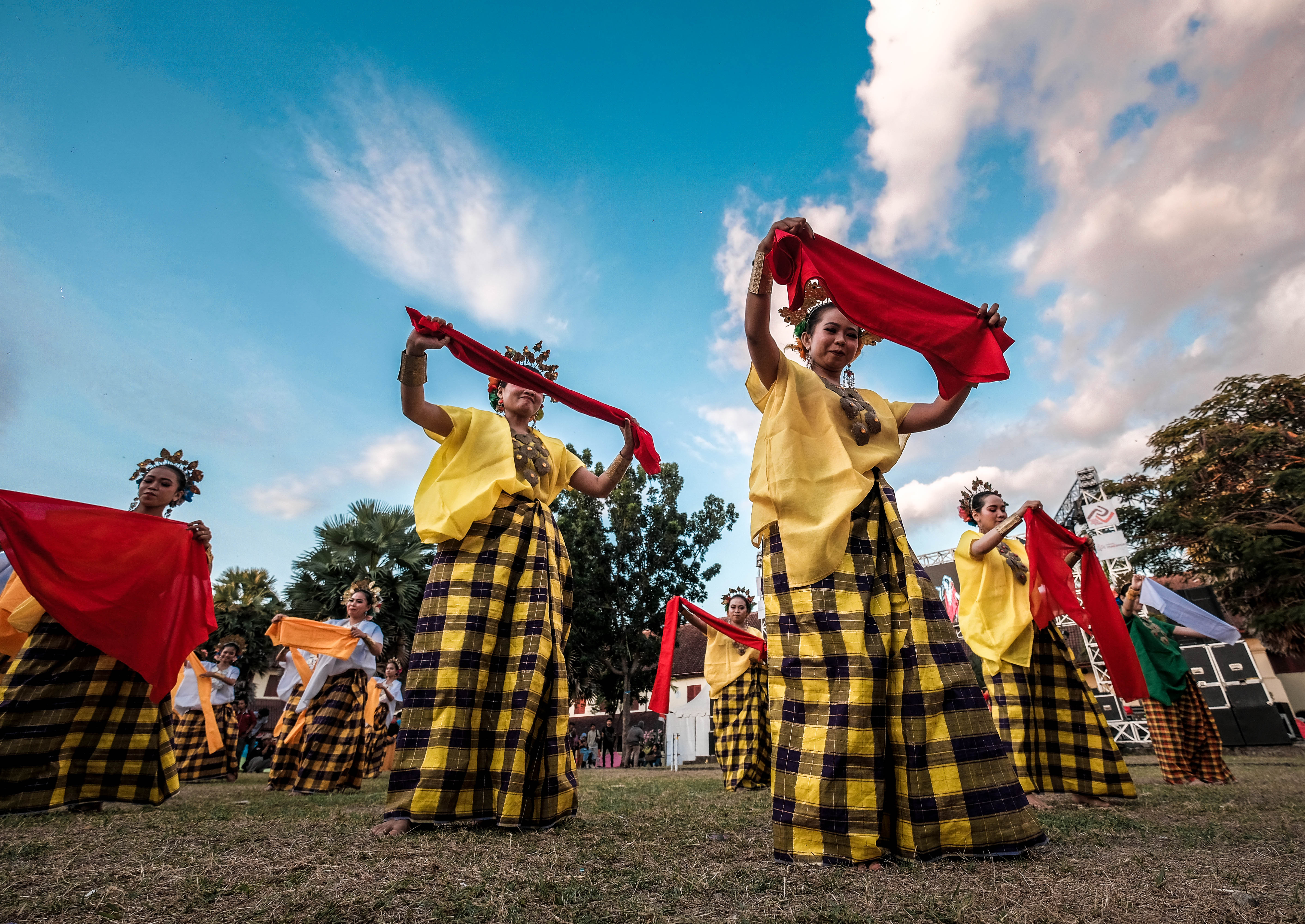 performing cultural dance Pakarena in an event in Makassar